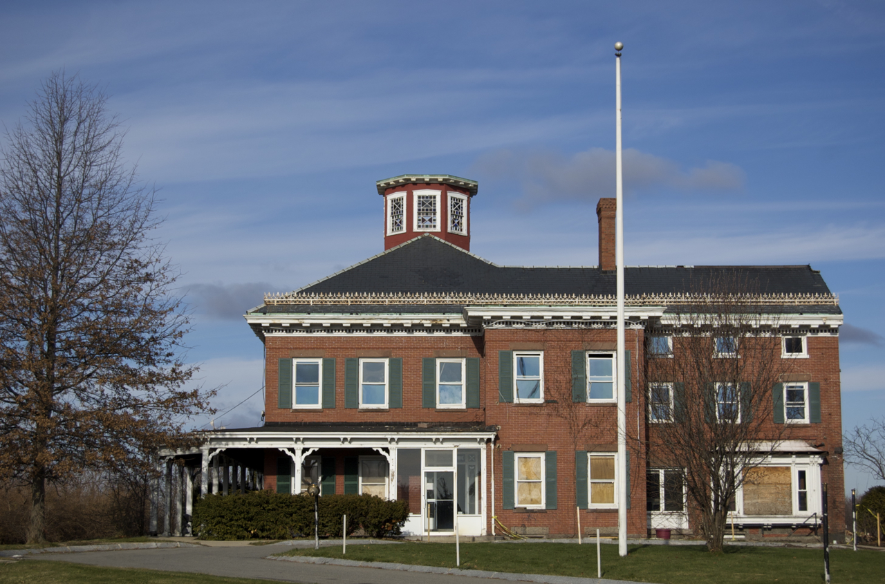 Riverbank, Italianate structure on the Danvers River, Massachusetts. Built in 1853. Was home to the New England Home for the Deaf, but was damaged in the w:2006_Danvers_Chemical_Fire, a massive explosion in a chemical plant only several hundred yards away. Currently looks boarded up.